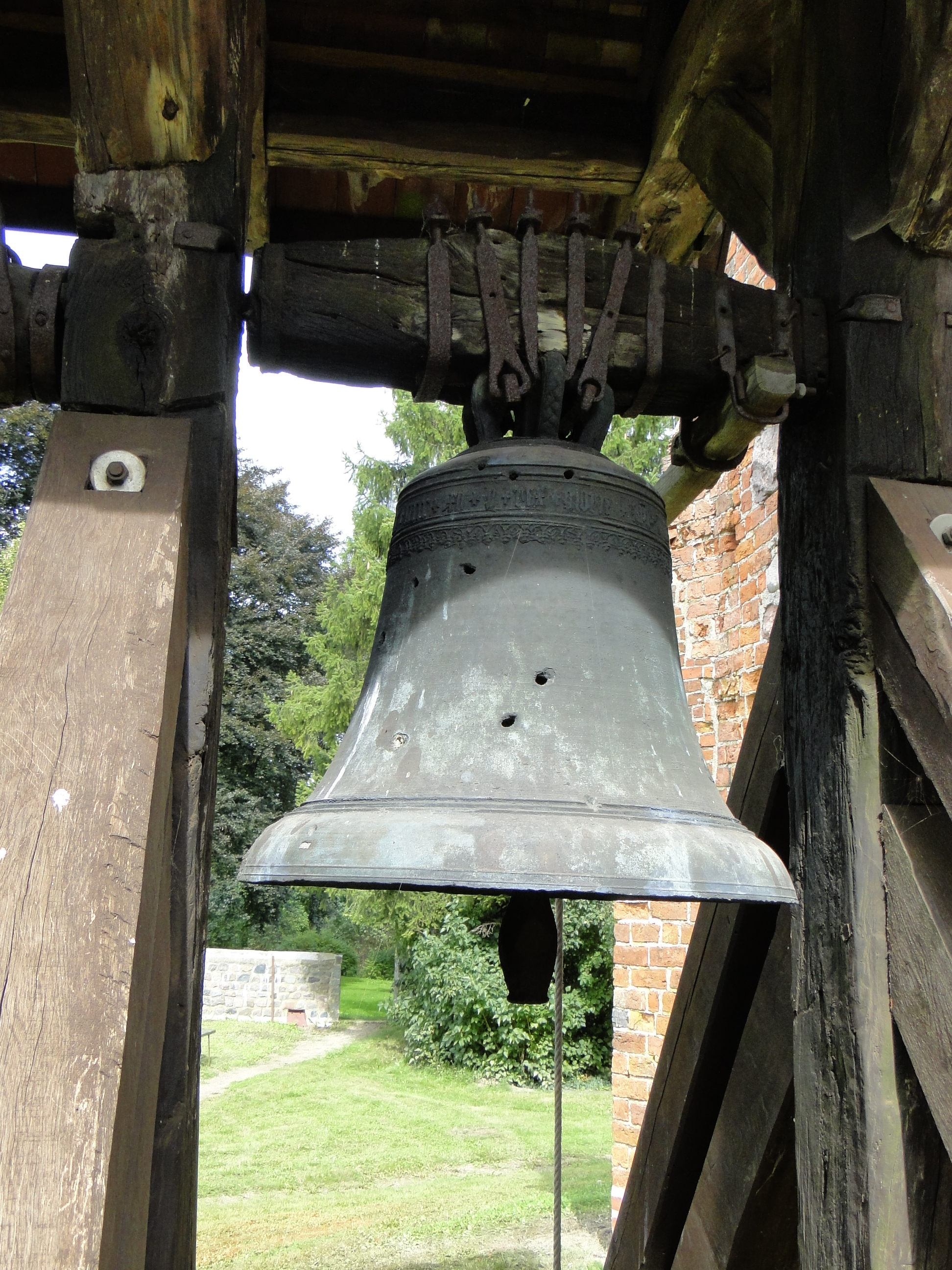 Church bells in Mollenstorf, district Müritz, Mecklenburg-Vorpommern, Germany